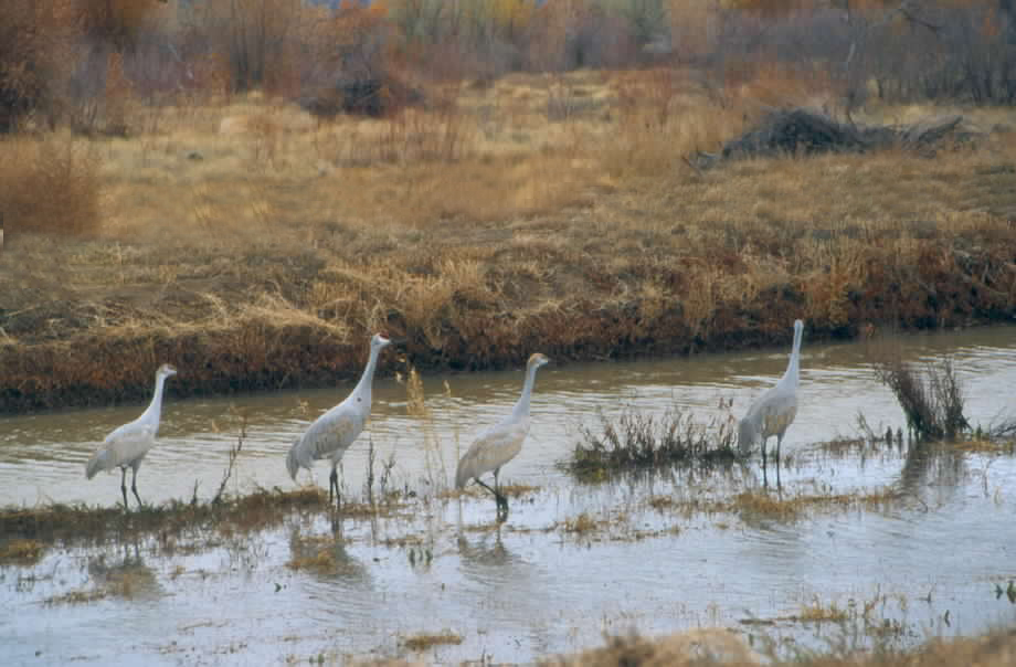 photo by Einar Einarsson Kvaran sandhill crane